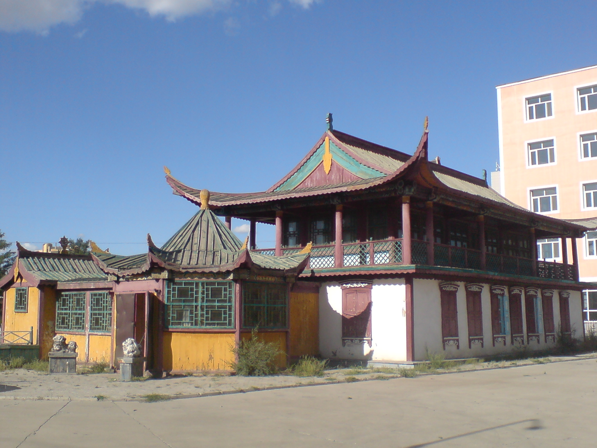 Chin Van Handdorj's house (Sükhbaatar district, Ulan-Bator) Монгол: Чинван Ханддоржийн өргөө-цогцолбор (Сүхбаатар дүүрэг, Улаанбаатар)